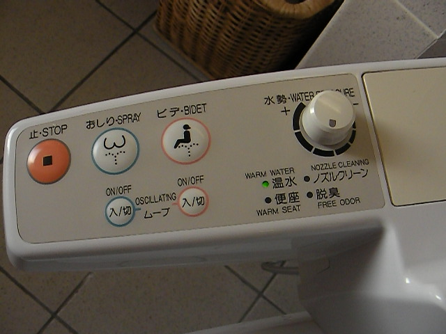 Control elements of a modern Japanese toilet